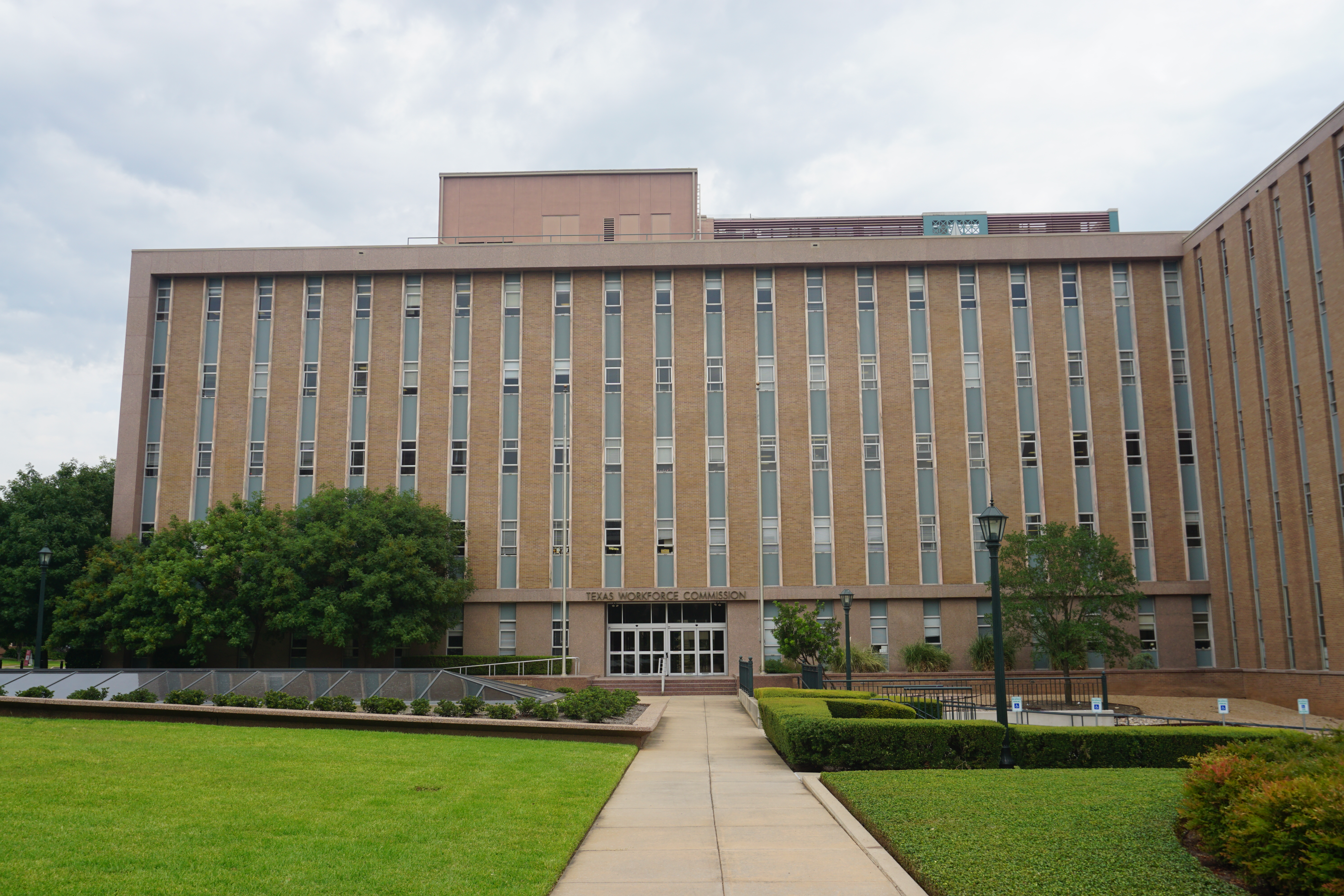 The Texas Workforce Commission building in Austin, Texas (United States).